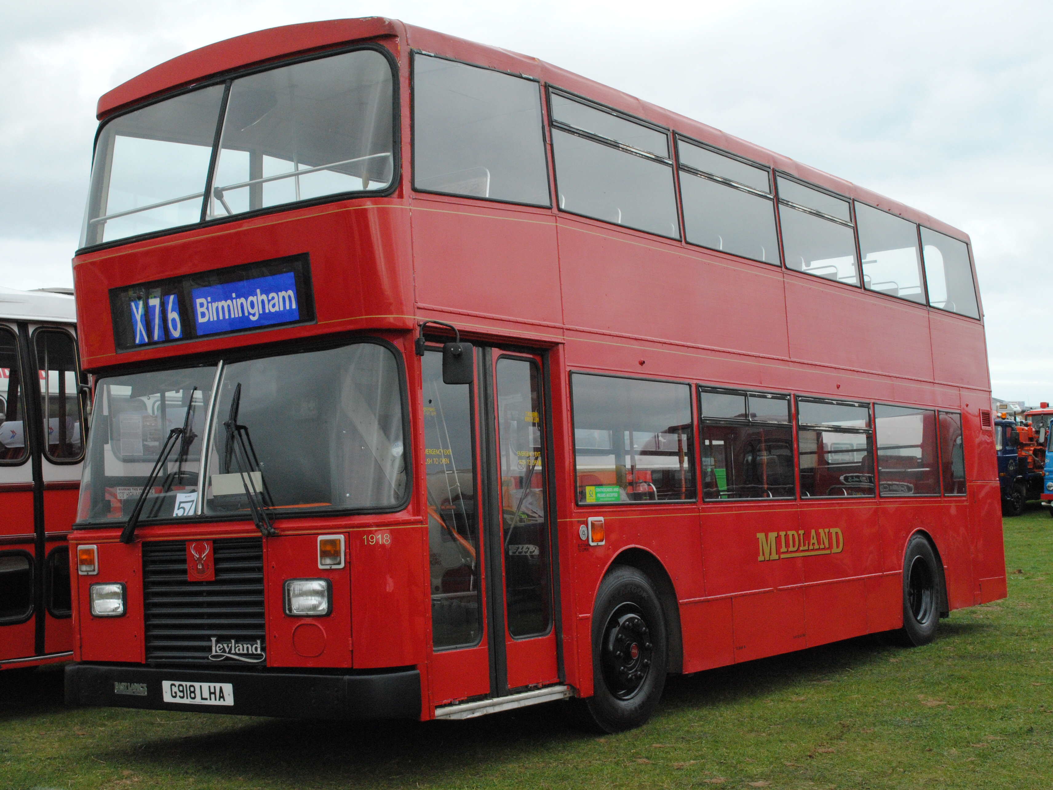 Leyland Olympian East Lancs Coachbuilders. seen here in Llandudno Transport Festival 2013